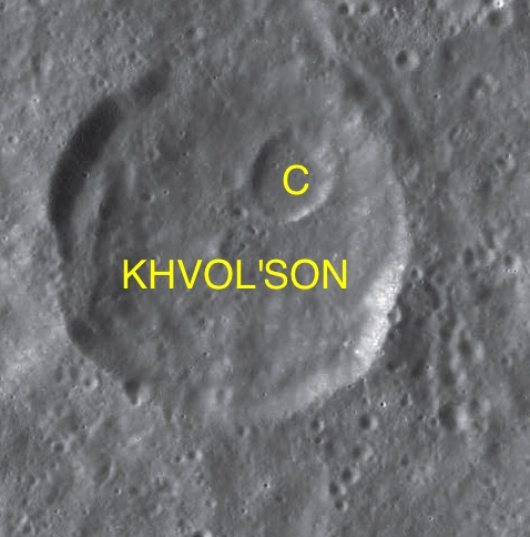 Part of the chart LAC-83